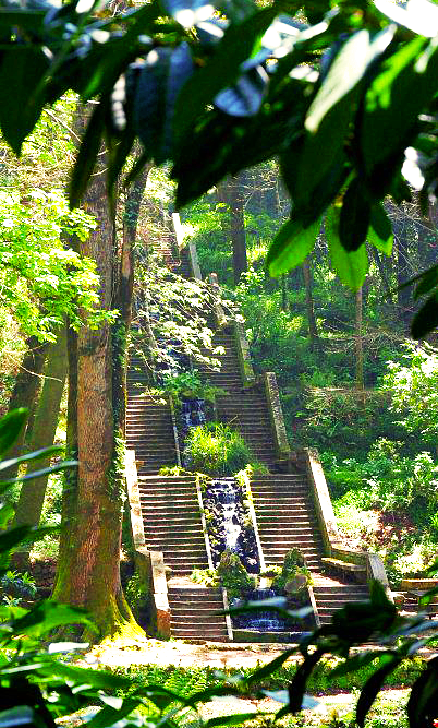 Fonte Fria Bussaco Forest